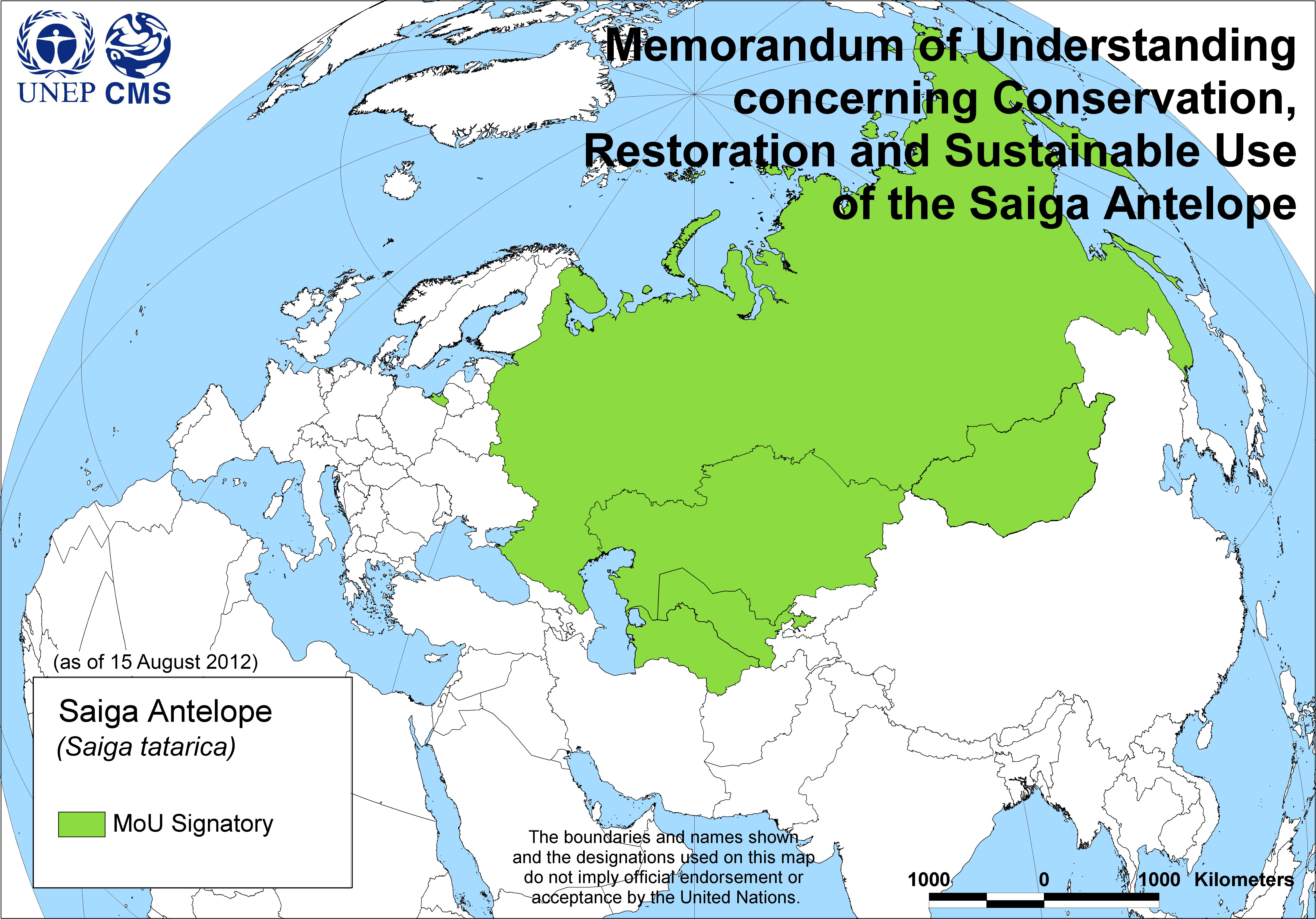 Map of Signatories to the Saiga Antelope Memorandum of Understanding